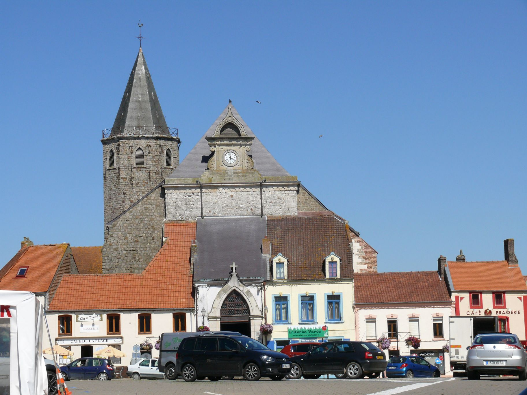 Saint-Martin's church of Samer (Pas-de-Calais, France).